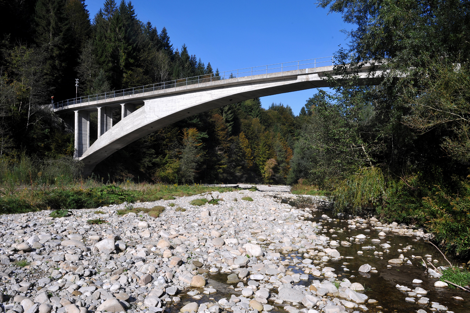 Rosssgraben bridge by Robert Maillart near Schwarzenburg, 1932; Berne, Switzerland.